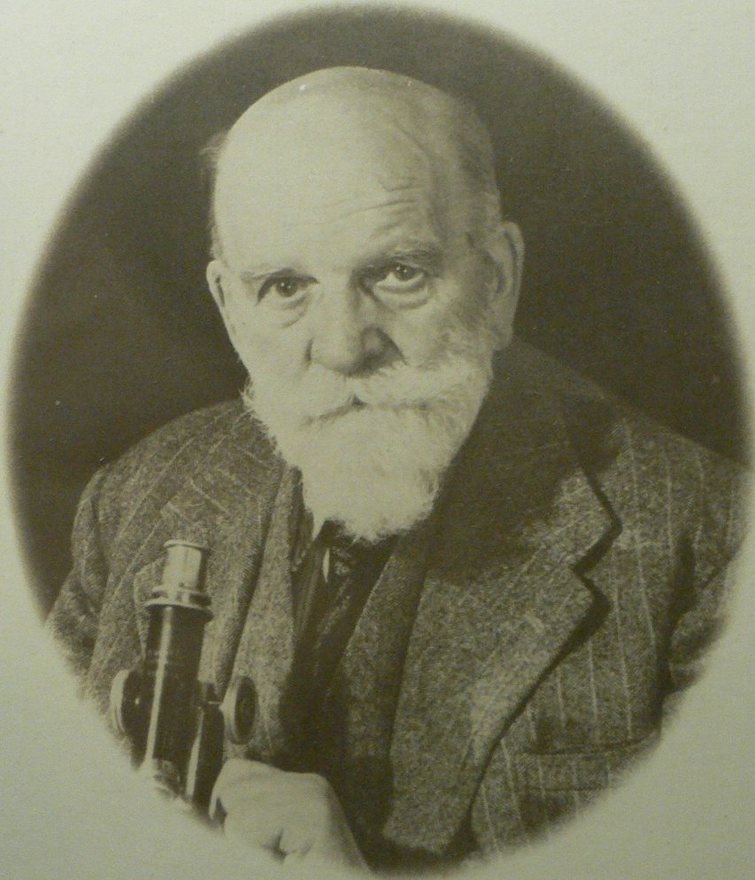 Author: Hauke Koch Source: Picture taken by myself (Hauke Koch) Location: Natural History Museum at Tring Date: 29.06.2007